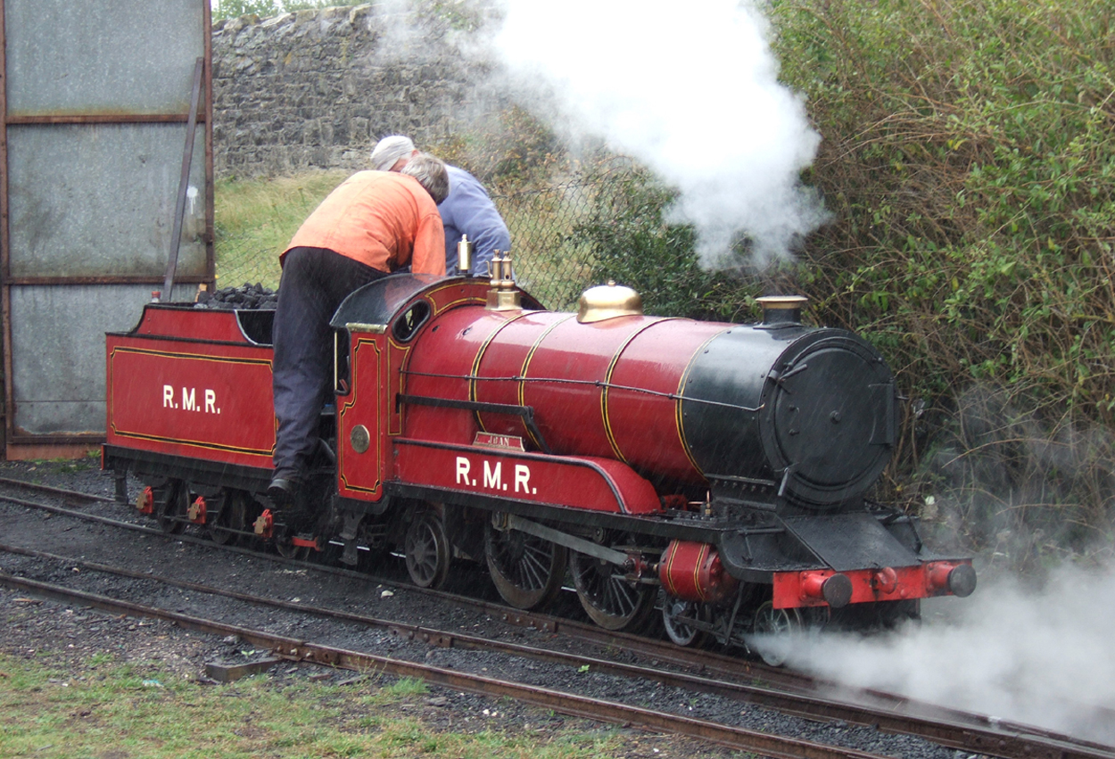 Rhyl Miniature Railway. Resident Engine 'Joan' at the Engine Shed (in the rain). 13th August 2005 Photographer - A.M.Hurrell Camera - Fuji FinePix F10 Modified - Trimmed and file size reduced using Finepix Software